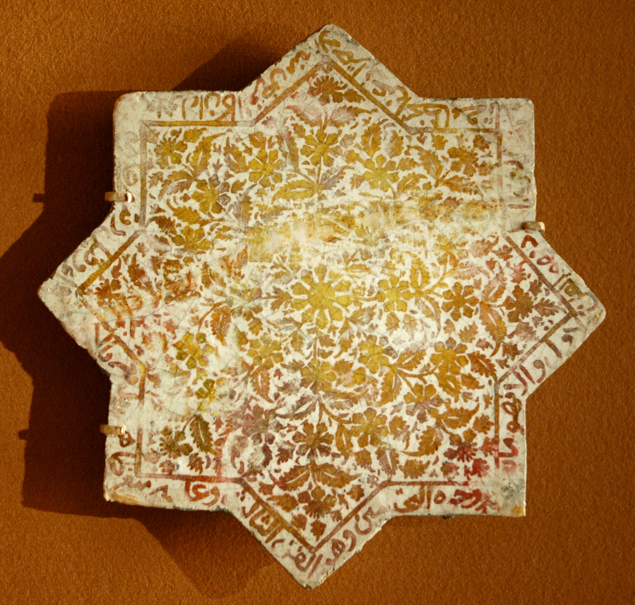 Star-shaped panel with grapevine decoration. Terracotta, lustre decoration and opacified glaze, overglaze painter. Late 14th-early 15th century, Spain.